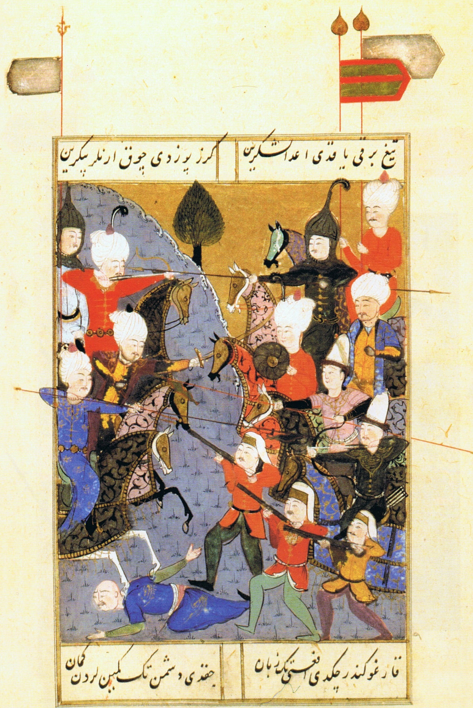 Selim I fighting his brother Ahmed.